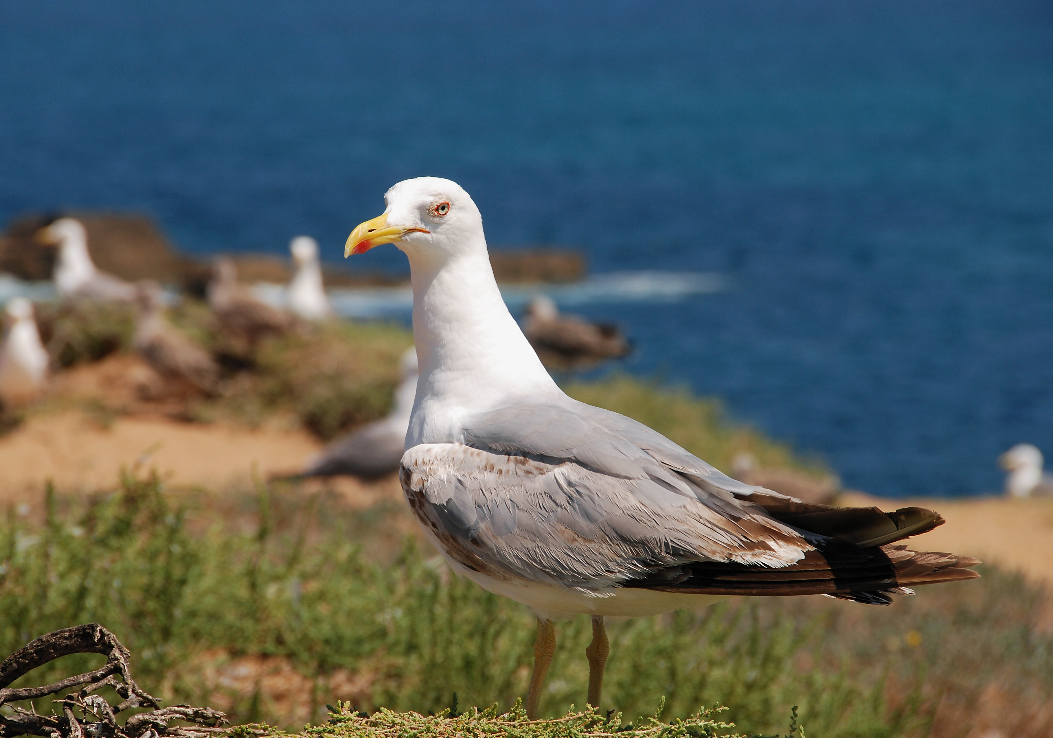 An adult seagull (Larus michahellis)